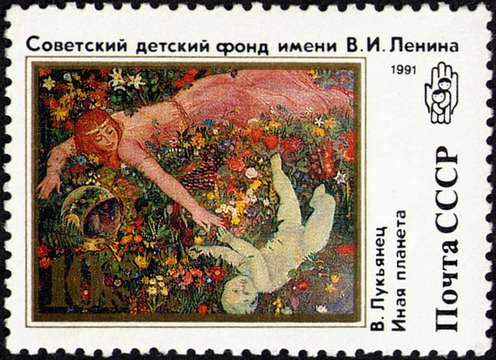 The semi-postal stamp of the Soviet Union for Lenin Soviet Children’s Fund, 10 kopecks of postage + 5 kopecks of surcharge.Paintings. Another Planet by Vitaly Lukyanets. 1974.1 June 1991, CPA Catalogue No 6326, Michel No 6203, Scott No B182. Coated paper. Offset printing. Perforation: comb 12¼×12. Size of the stamp: 42×30 mm. Print run: 2,200,000.